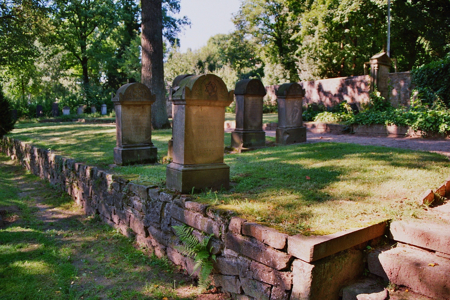 Jewish cemetery in Ibbenbüren, Kreis Steinfurt, North Rhine-Westphalia, Germany. The cemetery is a listed cultural heritage monument.